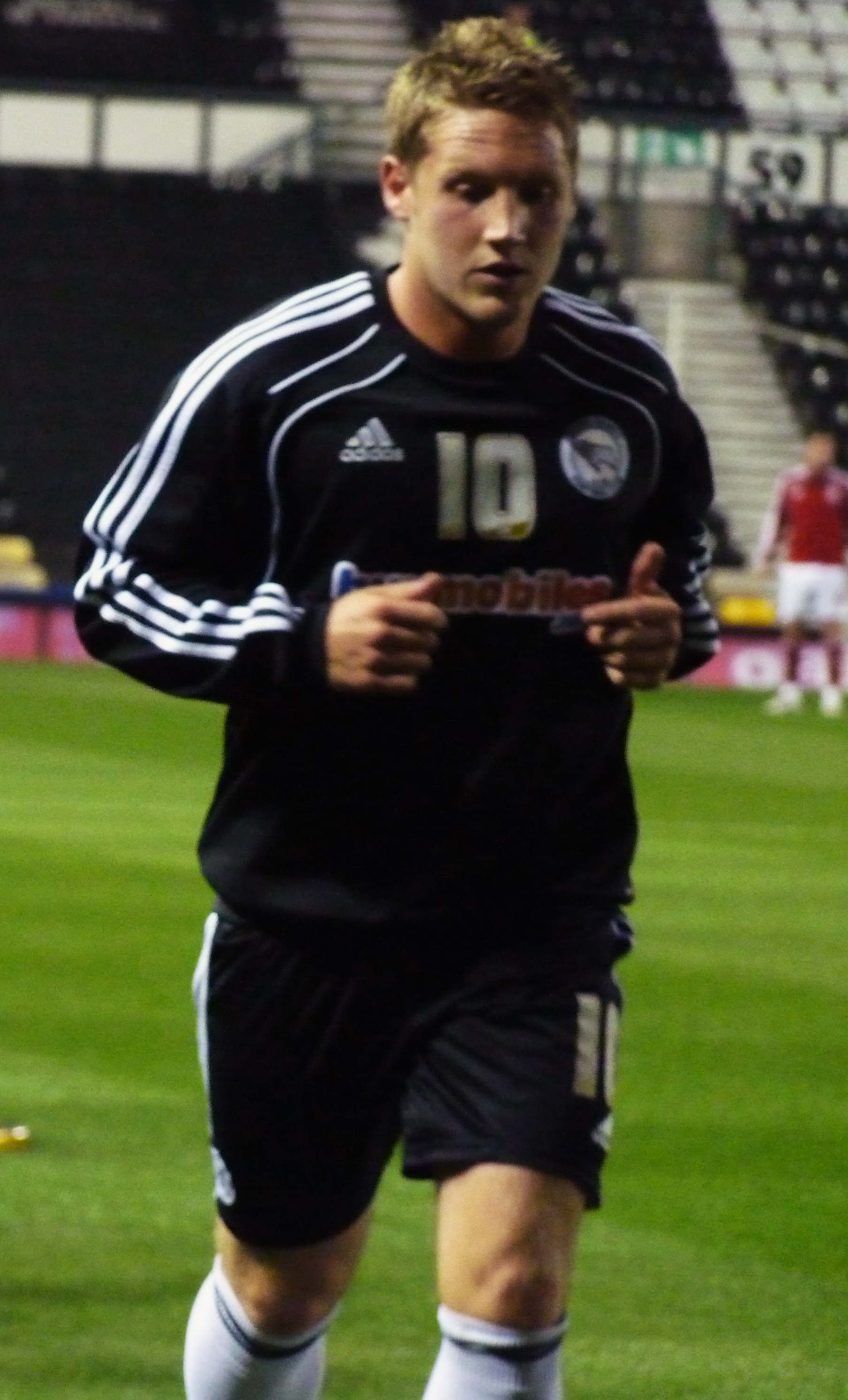 Kris Commons, from Derby County vs Middlesborough